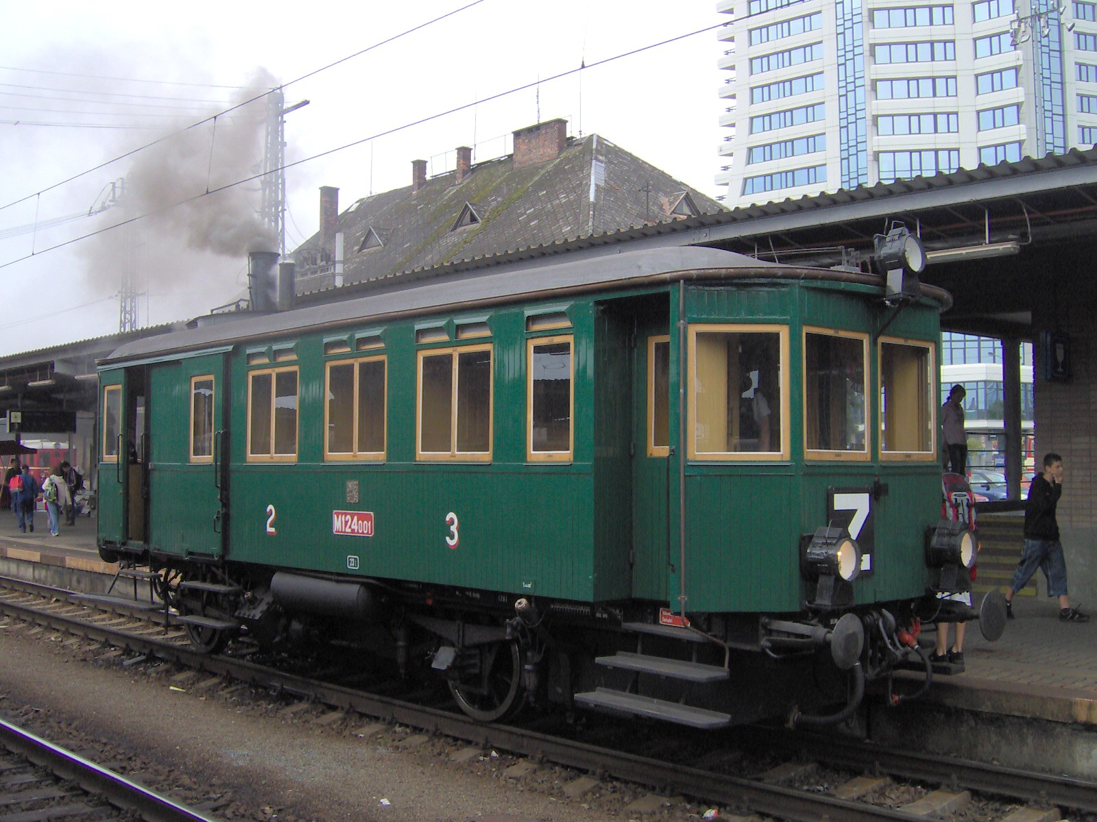 Steam railcar M 124.001 "Komarek", Olomouc main station, Czech Republic